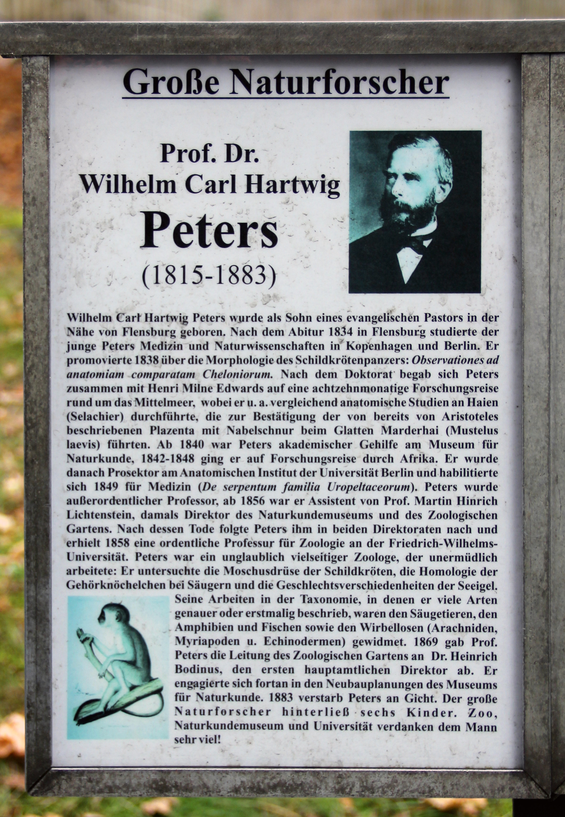 Memorial plaque, Wilhelm Peters, Hardenbergplatz 8, Berlin-Tiergarten, Deutschland